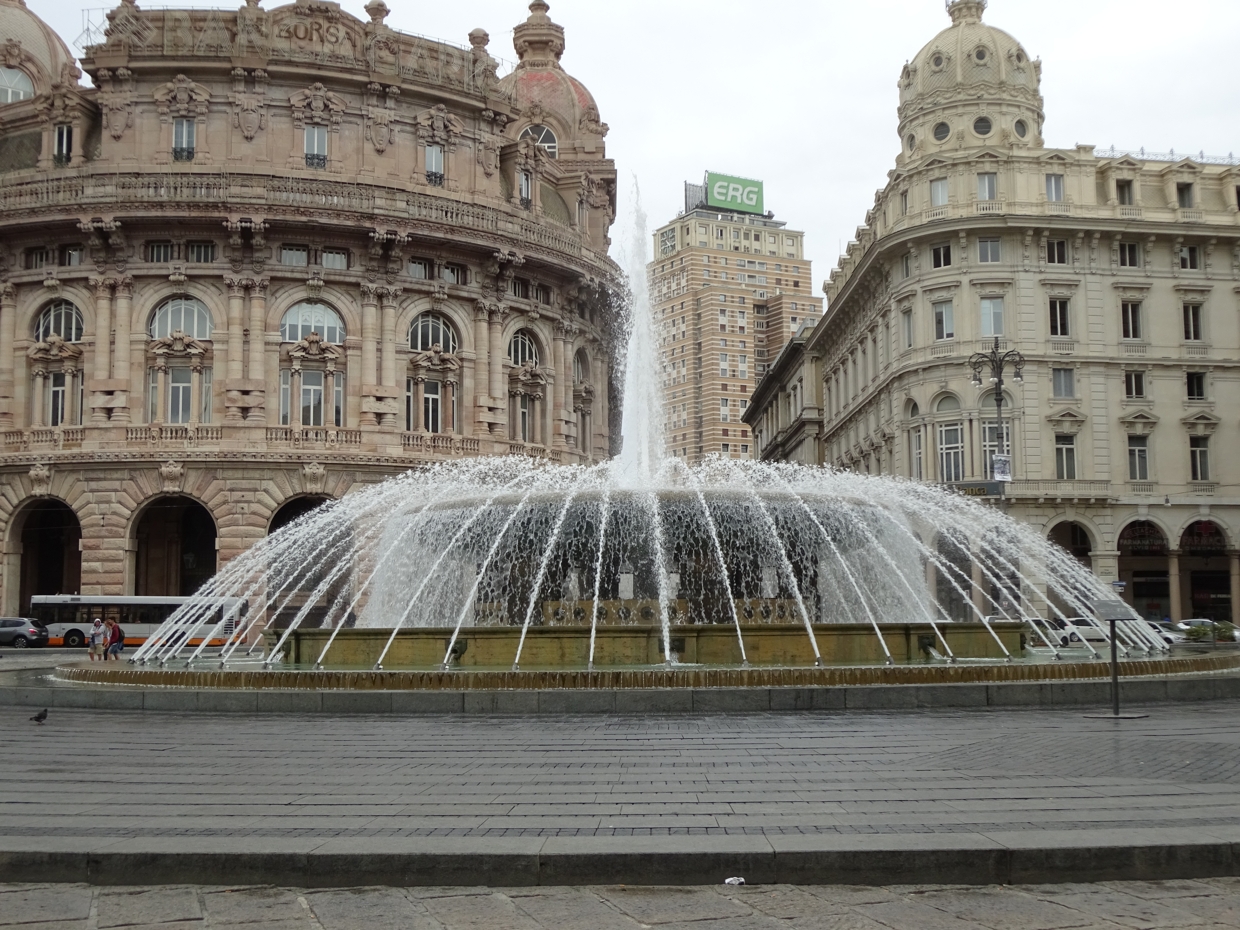 Fountain in De Ferrari Square in Genoa This is a photo of a monument which is part of cultural heritage of Italy.